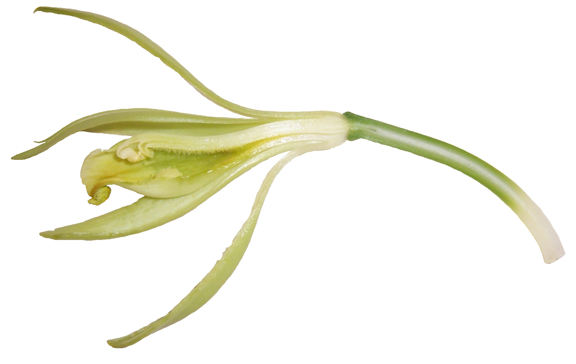 Longitudinal Section of a vanilla flower; Photo: B.navez - 09 JAN 2006 - Reunion island